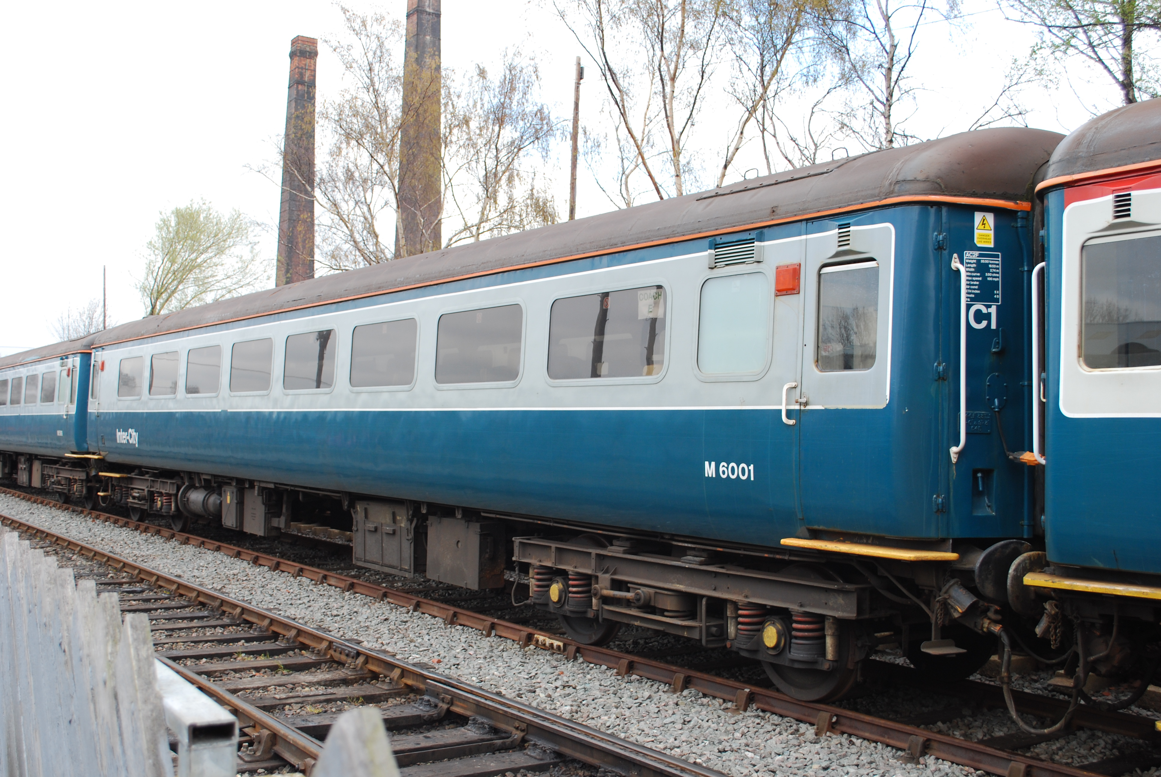 BR Mk.IIf TSO No.M6046 ex-Cargo-D and just sold to HNRC; built by BREL Derby 1973, Diagram 109, Lot 30860, in BR Inter City blue & grey. At Barrow Hill, 04/12.